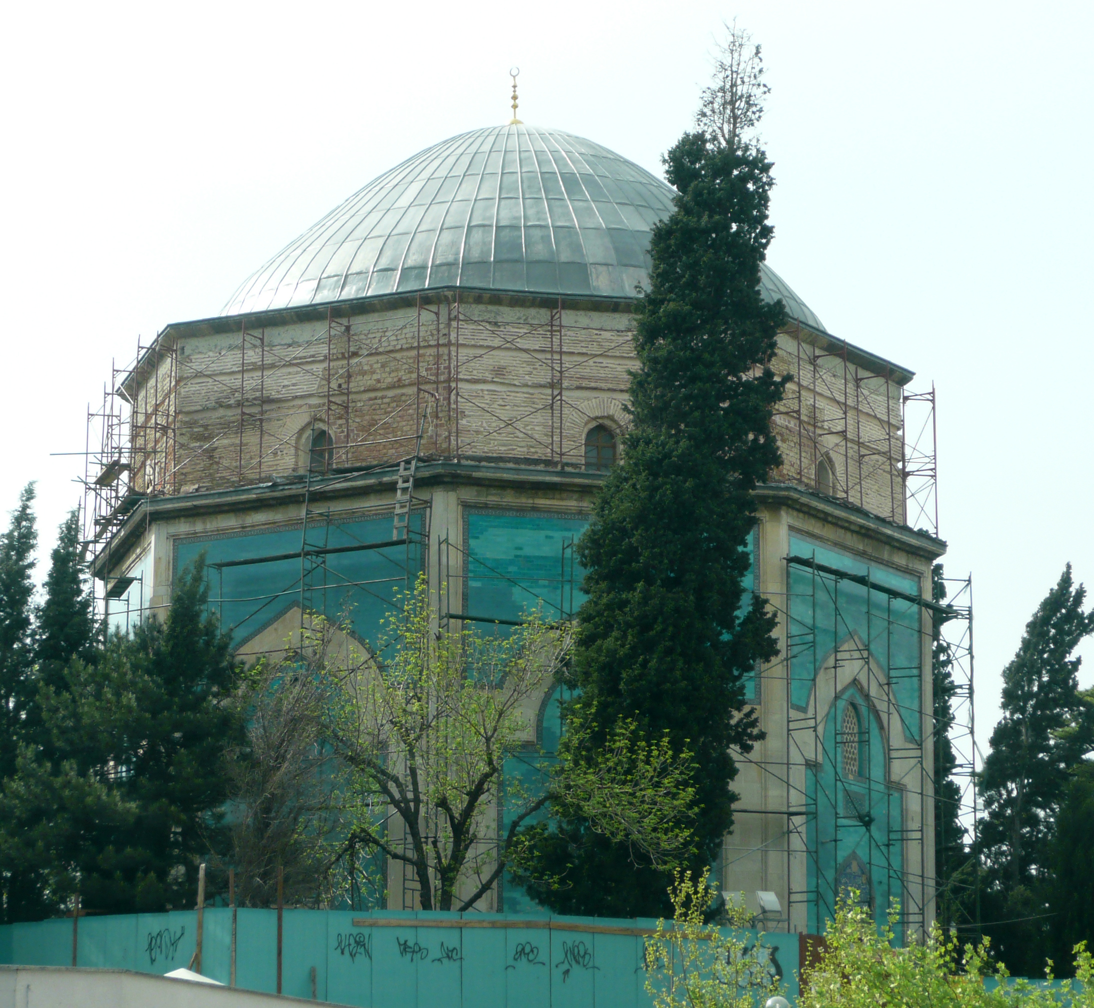 Green Türbe near Green Mosque in Bursa